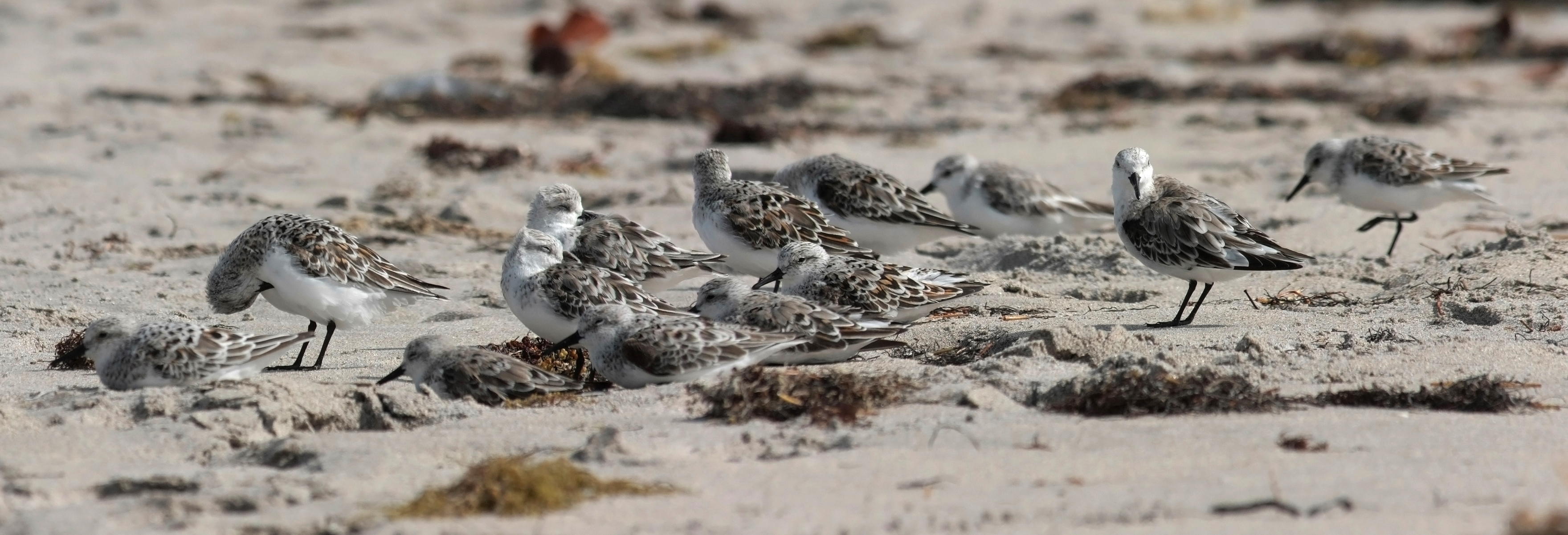 A group of sanderlings resting.